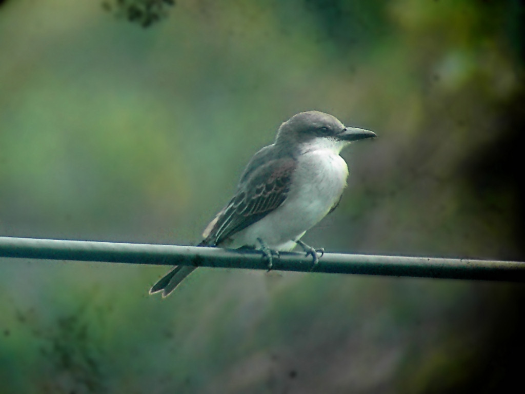 at Palm Tree House, Woodford Hill, Dominica, W.I.